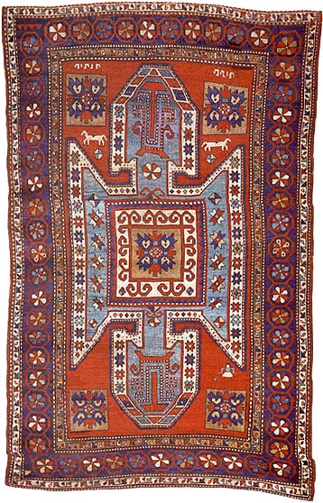 Armenian rug from Seven (Kazak). Kazak Rugs with this large, lobed medallion in the center of an often red field are known by a variety of names including Cross Kazak, Shield Kazak and Sevan Kazak. The latter term, which was used by Schurmann, is derived from Lake Sevan located northeast of Yerevan. Subsequently the name has been used for these pieces even when they have the dark brown wefts characteristic of many Karabagh village works. Clearly the design is one that was used over a wide area, but this piece, which has red wefts, would appear to merit the Kazak label. Nevertheless, the design in the corner rectangles is the familiar Sunburst medallion centers which is a Karabagh motif. The central shield-like device is thought by some to relate to the floor plan of Armenian churches. This rug establishes the fact that some classic Caucasian designs were woven by Armenians, and it confirms the impression that Armenian rugs were part of the mainstream rug production in the nineteenth century rather than the periphery.